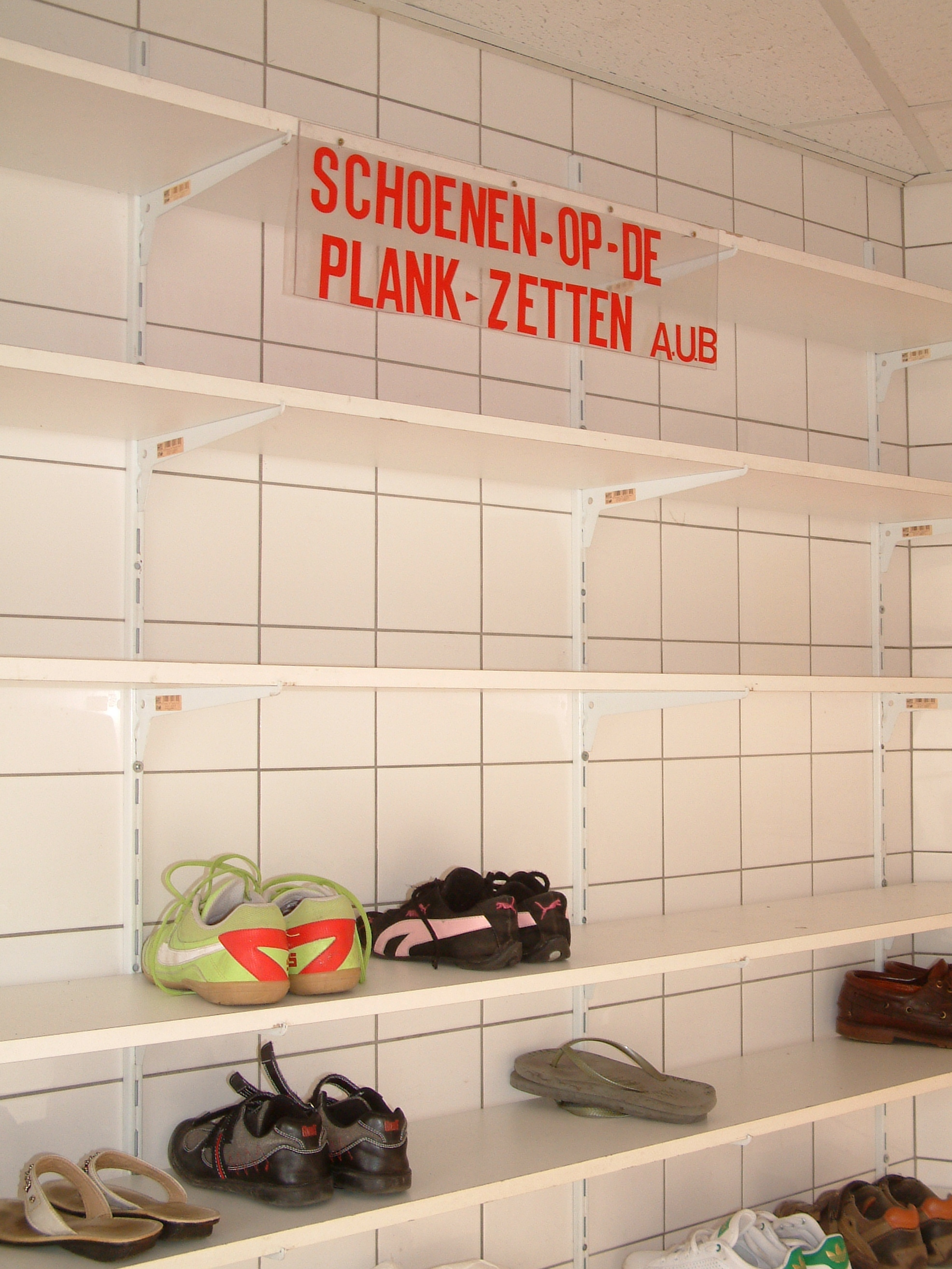 Shoe storage - Moskee Qibla in the Meerzicht neighbourhood of Zoetermeer